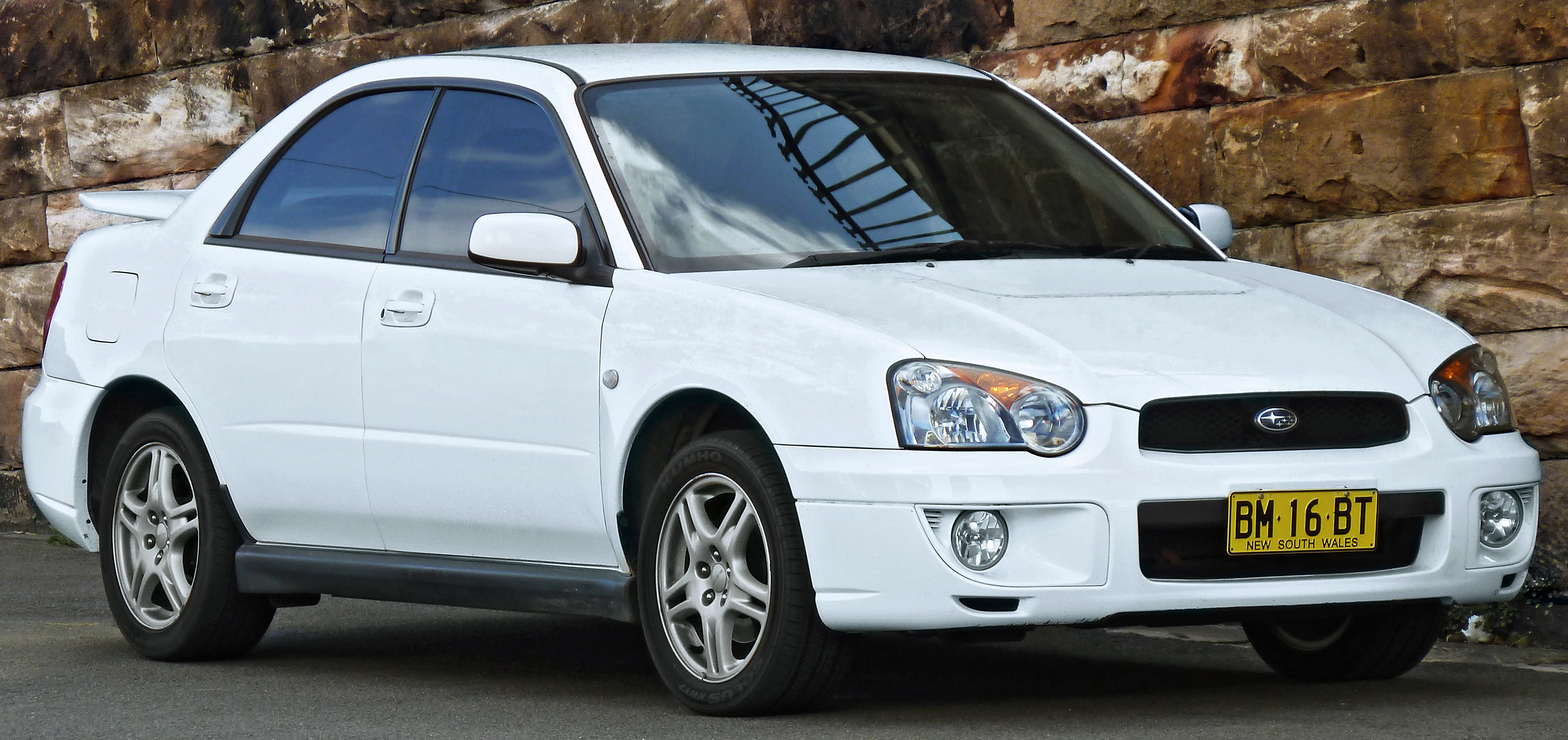 2004 Subaru Impreza (GDE) RS sedan. Photographed in Millers Point, New South Wales, Australia.